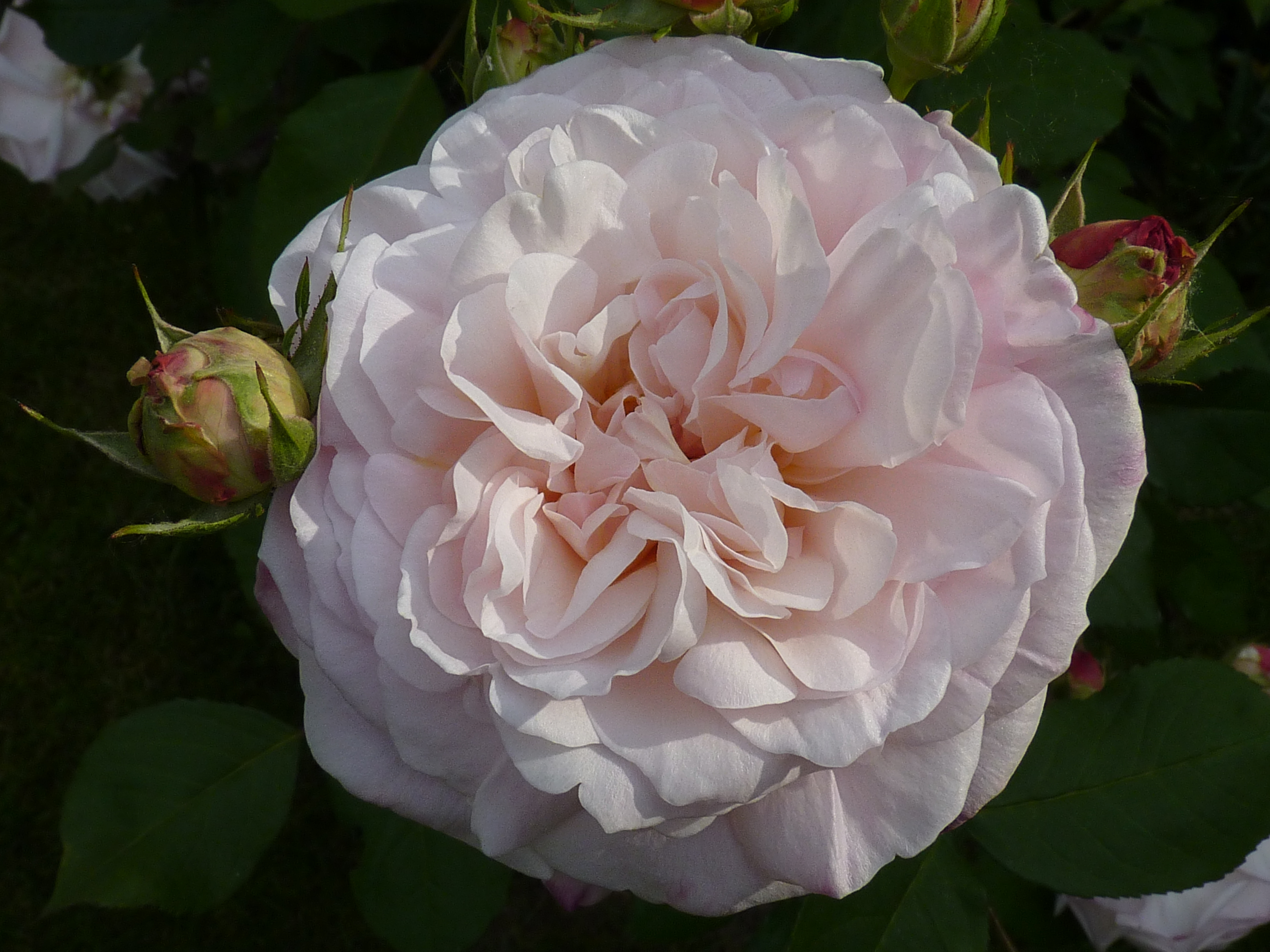 Rosa 'Gruss an Aachen' (Hinner & Geduldig, 1909), in a garden in Belgium.